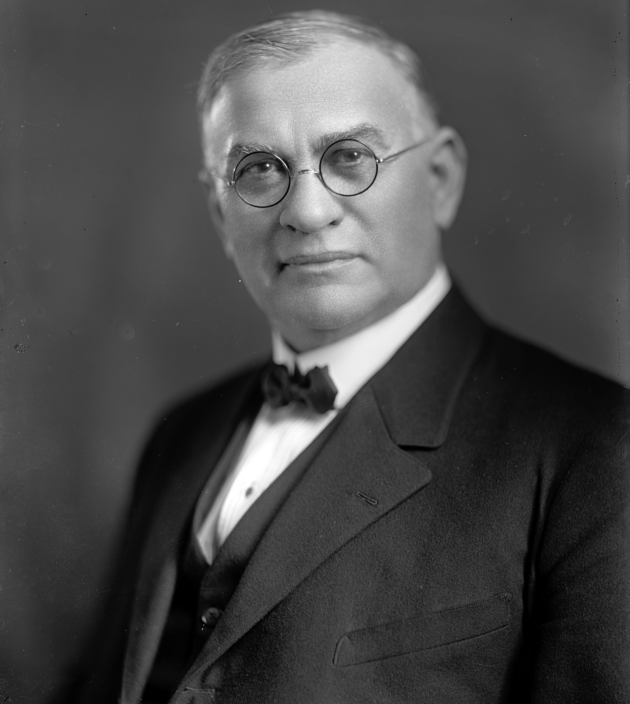 Samuel Feiser Glatfelter, US Representative from Pennsylvania